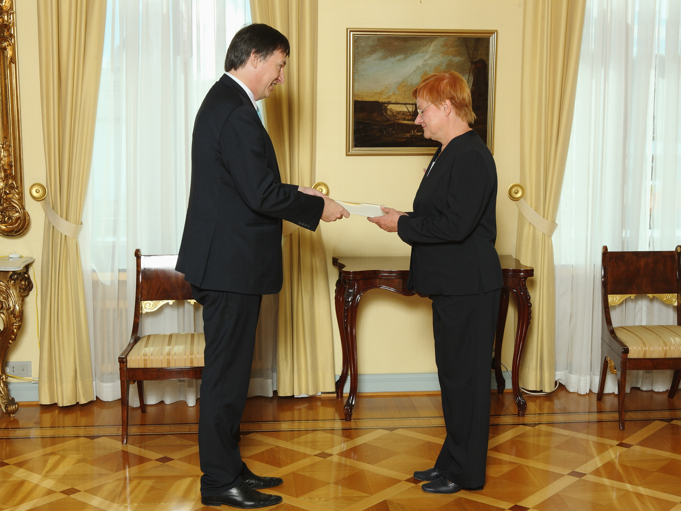 Estonian Ambassador to Finland Mart Tarmak Presents His Credentials to President of Finland Tarja Halonen